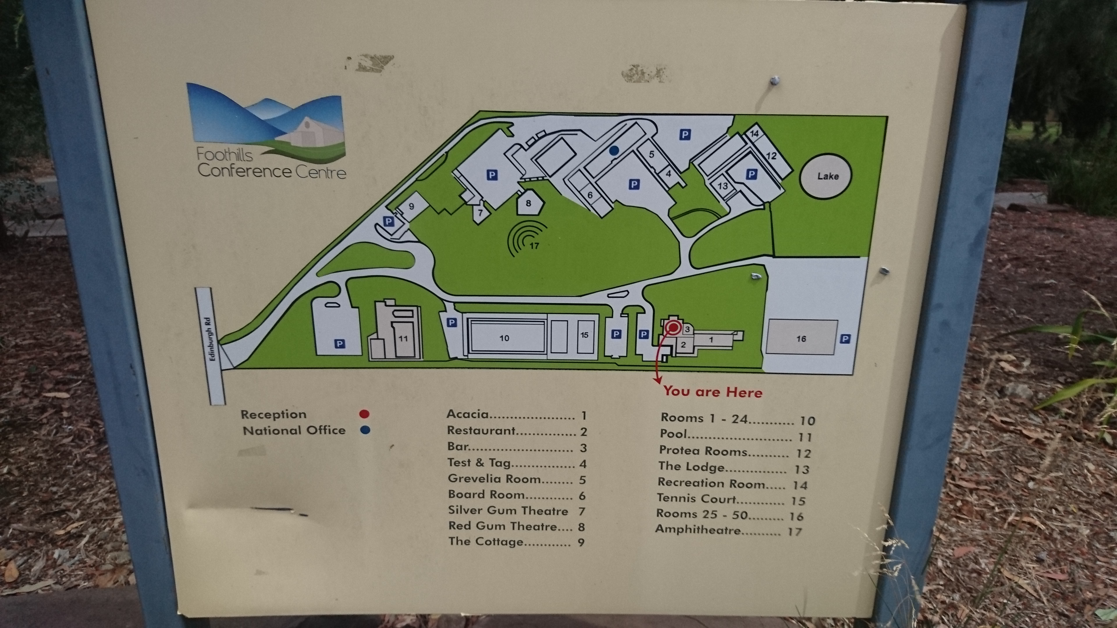 Map of Jim's Mowing (Group) - headquarters and Foothills Conference Centre, Lilydale, Victoria, AU